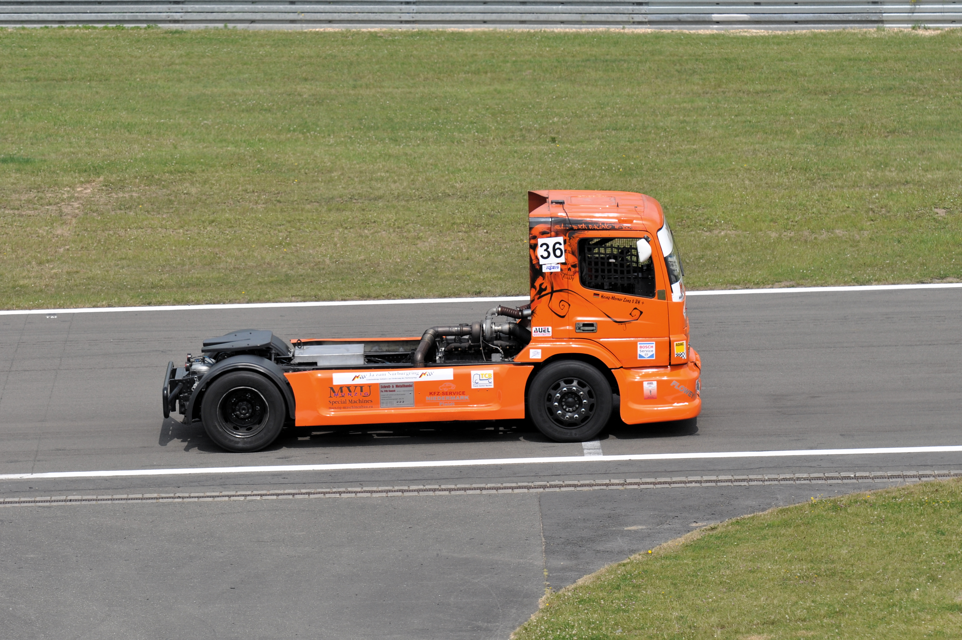 International ADAC Truck Racing Grand Prix, Nürburgring, Germany; Mercedes Truck of ther German Heinz-Werner Lenz